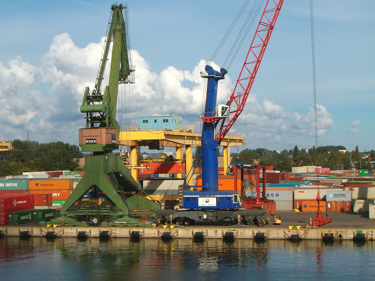 Container Terminal in Gdansk, Poland.